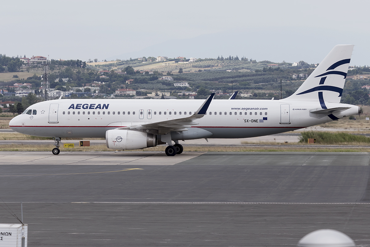 SX-DNE - Aegean Airlines - Airbus A320-232(WL)